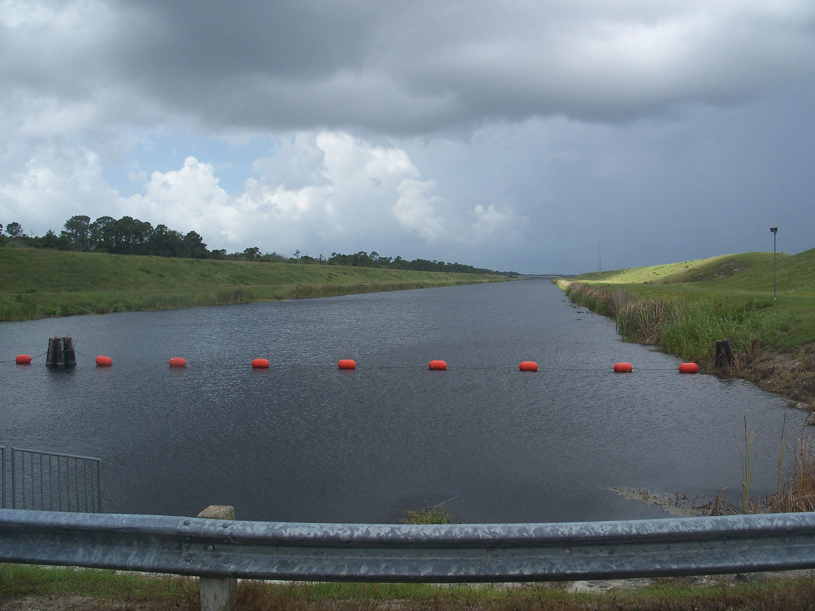 Sebastian, Florida: St. Sebastian River Preserve State Park North end, off County Road 507: Manatee viewing area